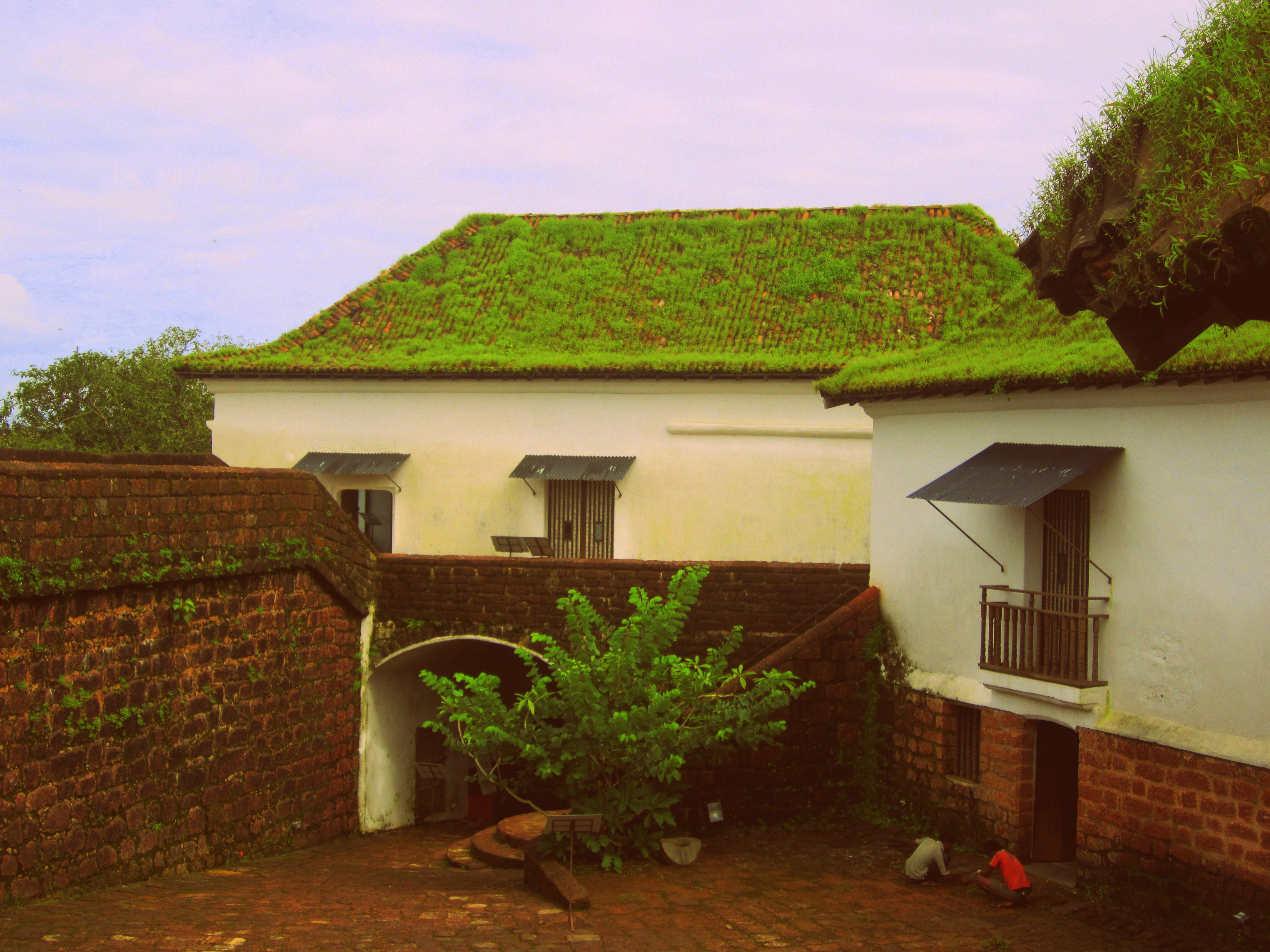 Reconstructed fort